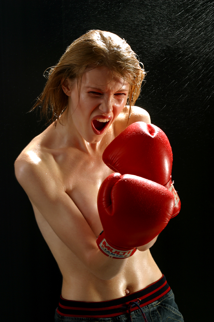 Title page of a book Модные сказки от Саши Варламова (2004)